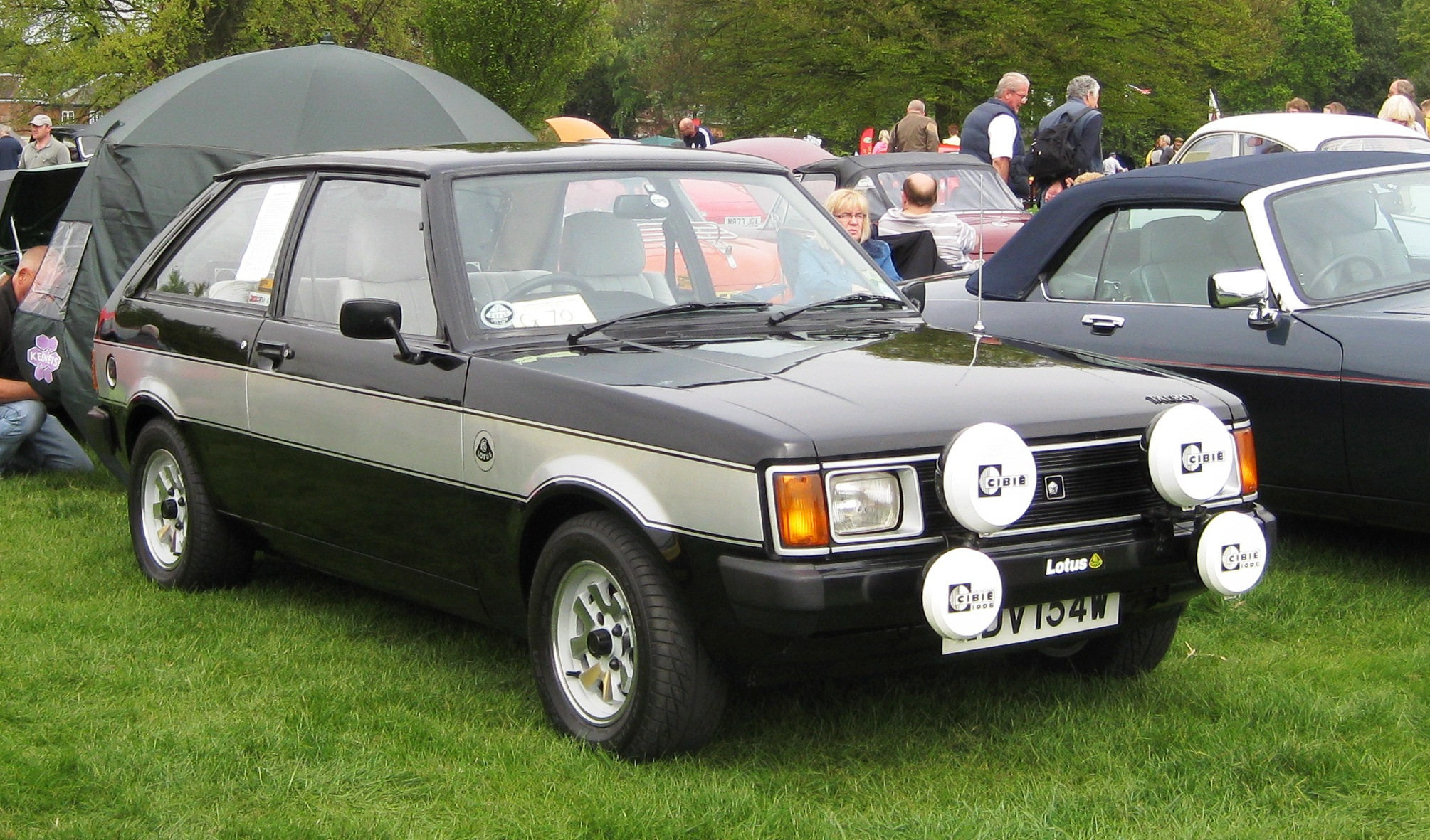 Talbot Sunbeam Lotus at Weston Park Transport Show